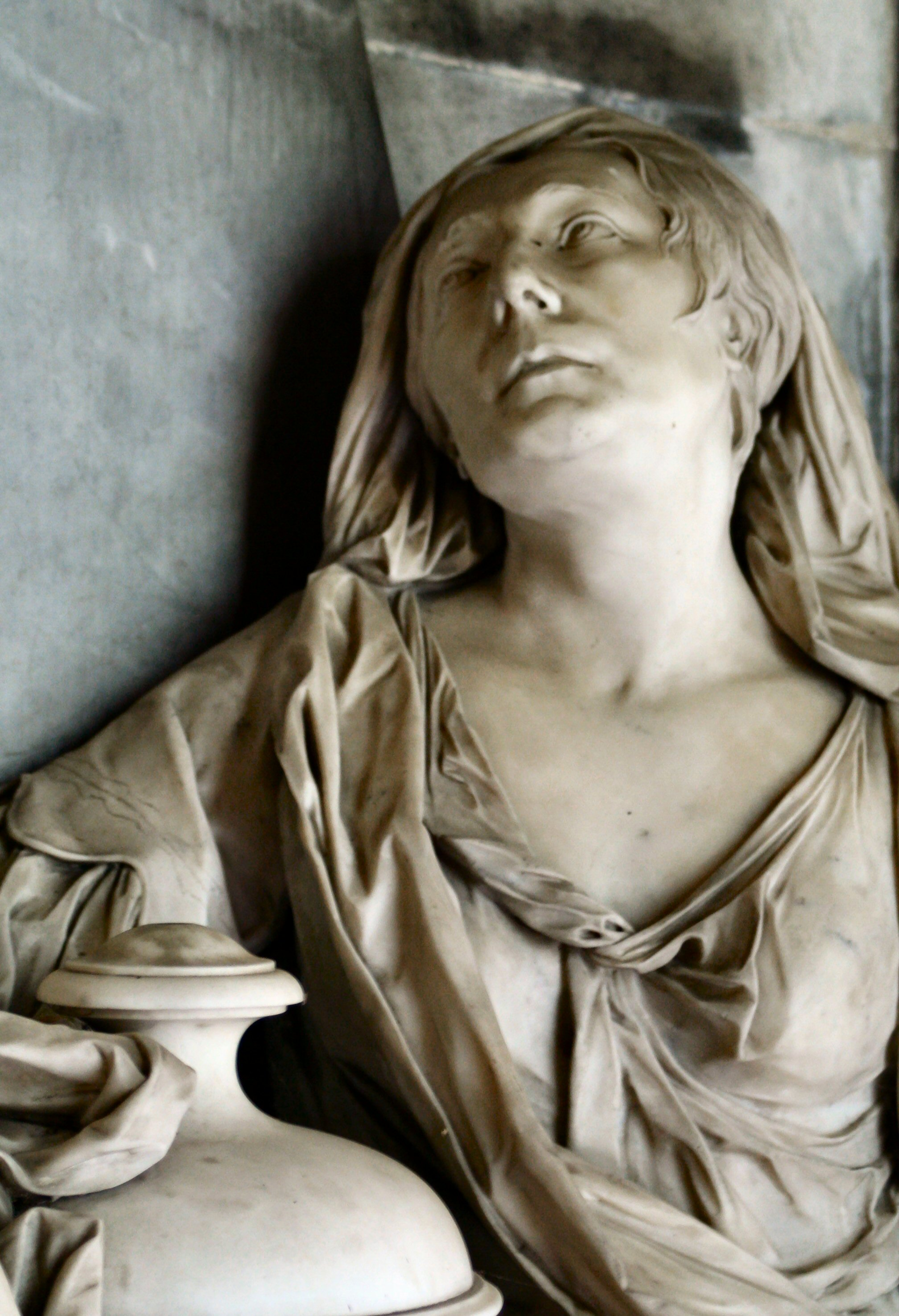 Part of the memorial placed by Ann Bellamy Lynn to her husband George at St Mary's church Southwick, Northamptonshire. The carving by Louis-François Roubiliac dates to 1758 and cost of £500. It shows Ann looking up at a profile of her late husband. Picture by R Neil Marshman (c) - see metadata.